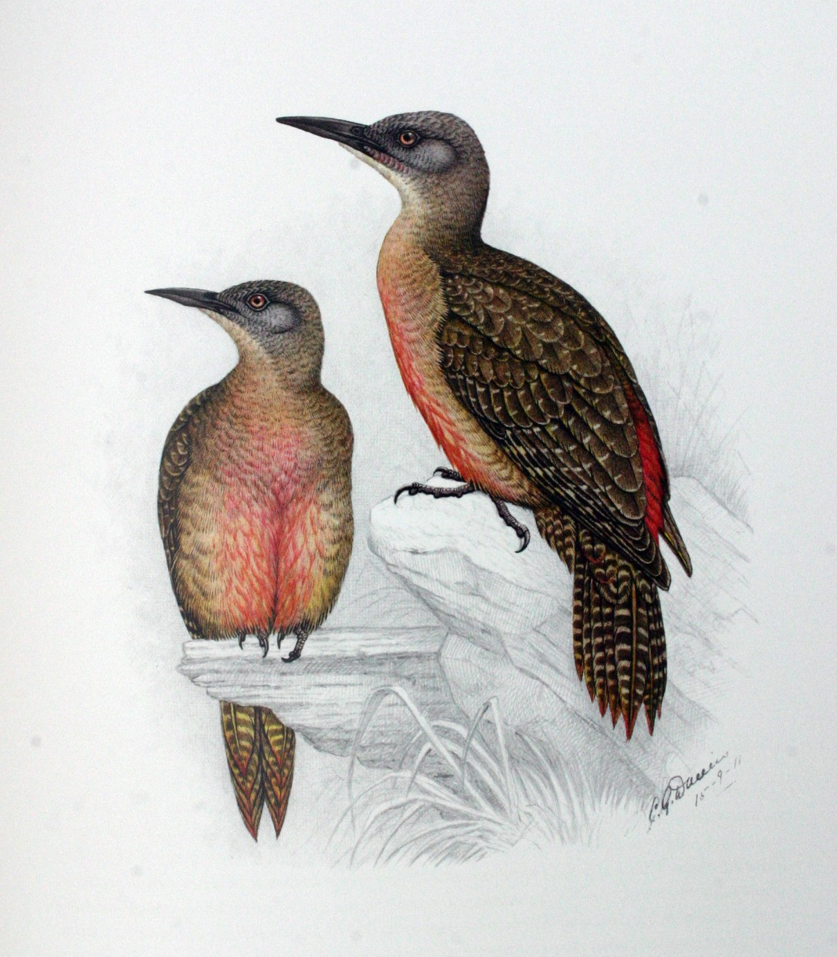 Ground woodpecker (Geocolaptes olivaceus) (adult male and female)